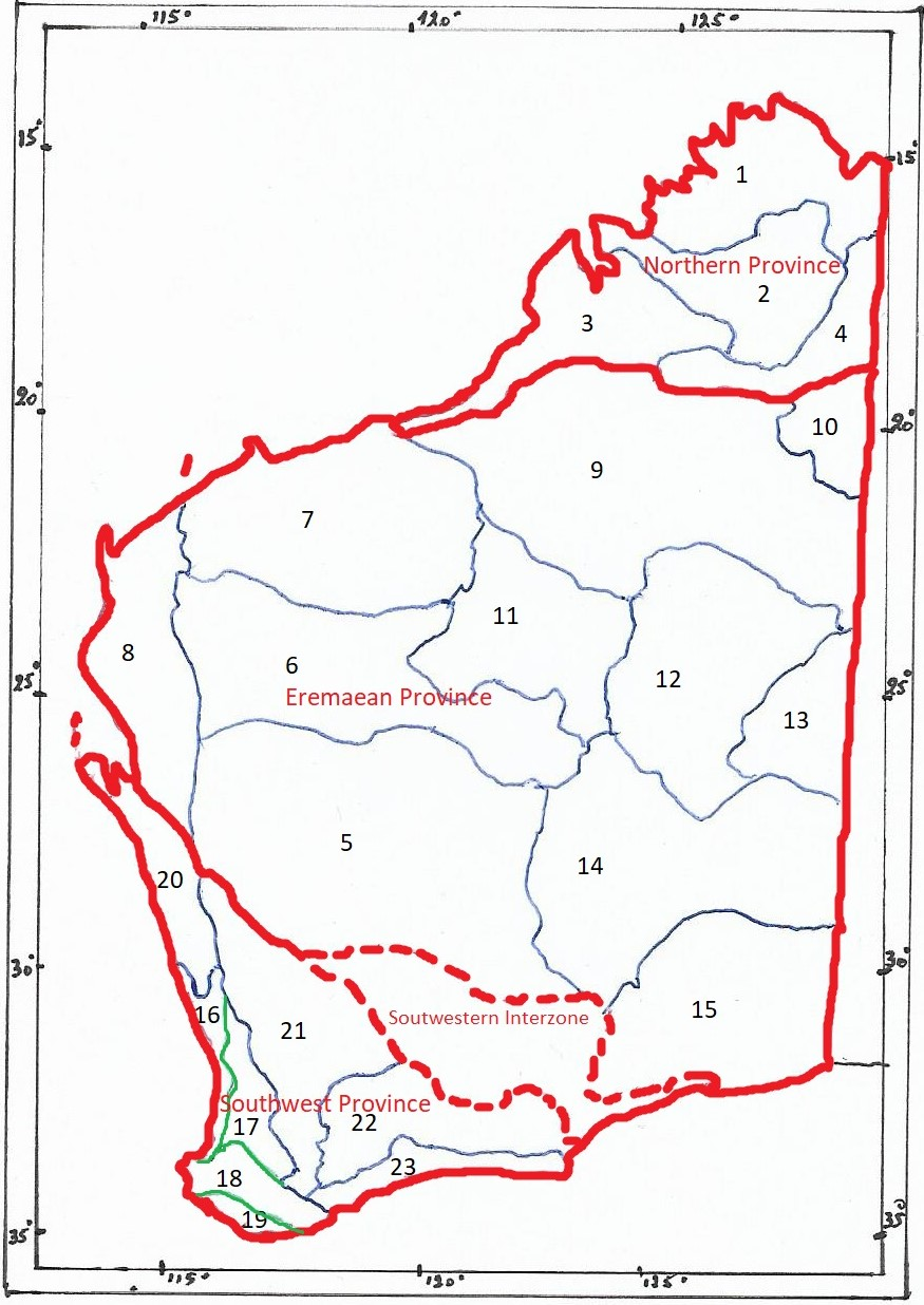 map description 1. North Kimberley Region (Gardner Botanical District) 2. Central Kimberley Region (Fitzgerald Botanical District) 3. Dampierland (Dampier Botanical District) 4. East Kimberley Region (Hall Botanical District) 5. Murchison Region (Austin Botanical District) 6. Gascoyne Region (Ashburton Botanical District) 7. Pilbara Region (Fortescue Botanical District) 8. Carnarvon Region (Carnarvon Botanical District) 9. Great Sandy Desert (Canning Botanical District) 10. Tanami Desert (Mueller Botanical District) 11. Little Sandy Dessert (Keartland Botanical District) 12. Gibson Desert (Carnegie Botanical District) 13. Central Ranges (Giles Botanical District) 14. Great Victoria Desert (Helms Botanical District) 15. Nullabor Region (Eucla Botanical District) 16. Swan Coastal Plain (Drummond Subdistrict) 17. Northern Jarrah Forest (Dale Subdistrict) 18. Southern Jarrah Forest (Menzies Subdistrict) 19. Karri Forrest Subregion (Warren Subdistrict) 20. Northern Sandplains (Irwin Botanical District) 21. Wheat Belt Region (Avon Botanical District) 22. Mallee Region (Roe Botanical District) 23. Esperance Region (Eyre Botanical District) 16 - 19 = Southwest Forest Region (Darling Botanical District) Southwestern Interzone = (Coolgardie Botanical District) .